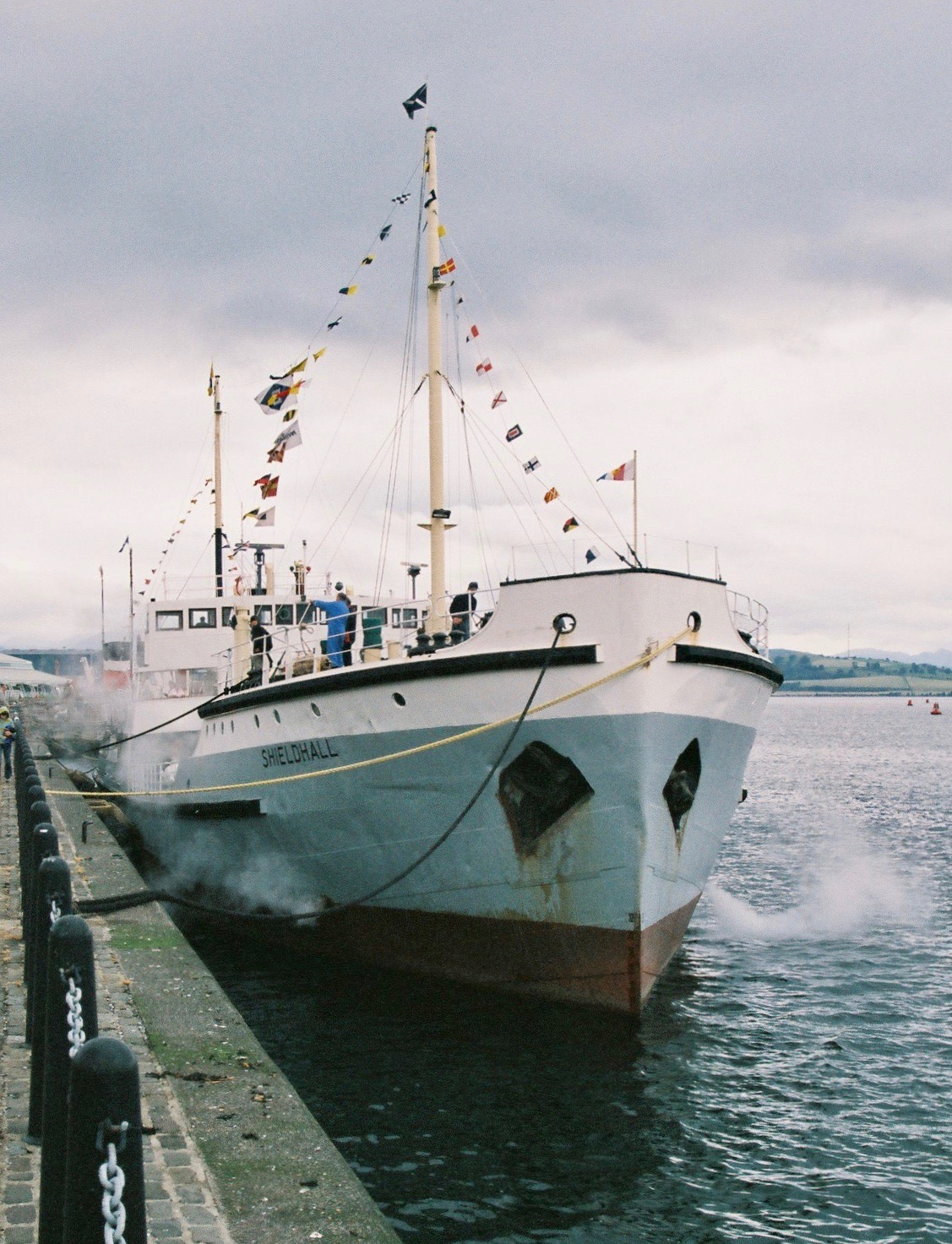 SS Shieldhall moored at Custom House quay, Greenock. The red, white and black funnel behind her is of the PS Waverley. IMO Number: 5322752 MMSI Number: 232003964 Callsign: GNGE Length: 82 m Beam: 13 m Photograph by User:Dave souza, 4 August 2005, 17:10. Any re-use to contain this notice and to attribute the work to User:Dave souza at Wikipedia.